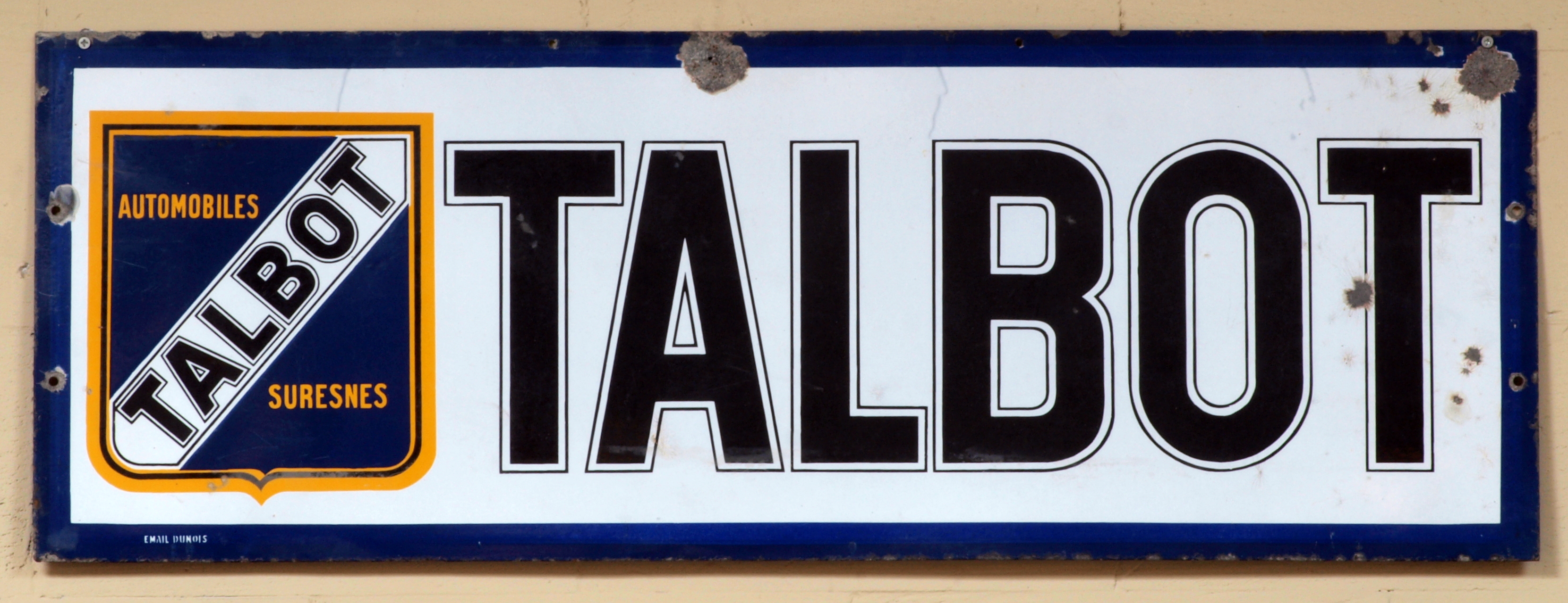 Den Hartogh Ford Museum. Automobiles Talbot Suresnes